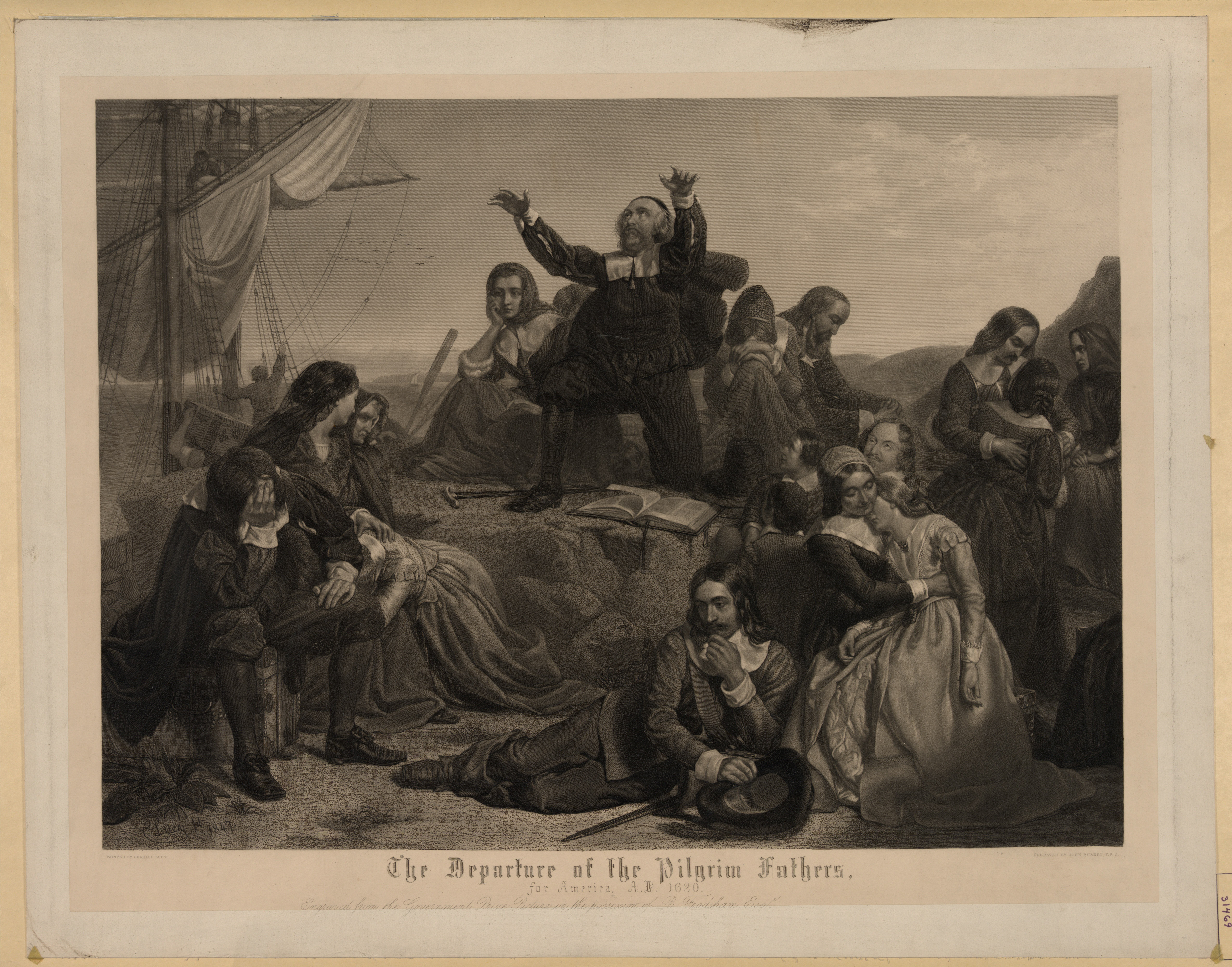 Title: The departure of the pilgrim fathers, for America, A.D. 1620 Physical description: 1 print. Notes: This record contains unverified data from PGA shelflist card.; Associated name on shelflist card: Burnet, John.